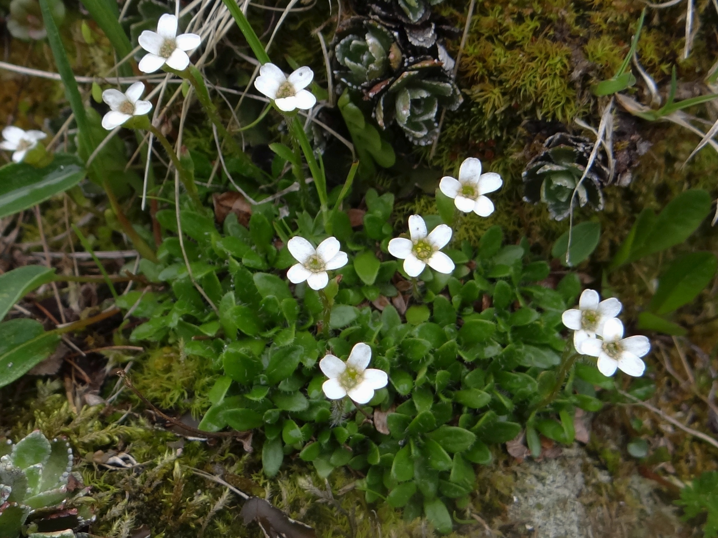 Saxifraga androsacea (location: Poland., West Tatra Mountains, Litworowa Przełęcz)